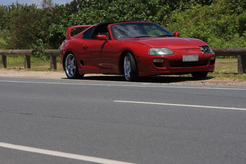 Red Toyota Supra MKIV parked by the road.